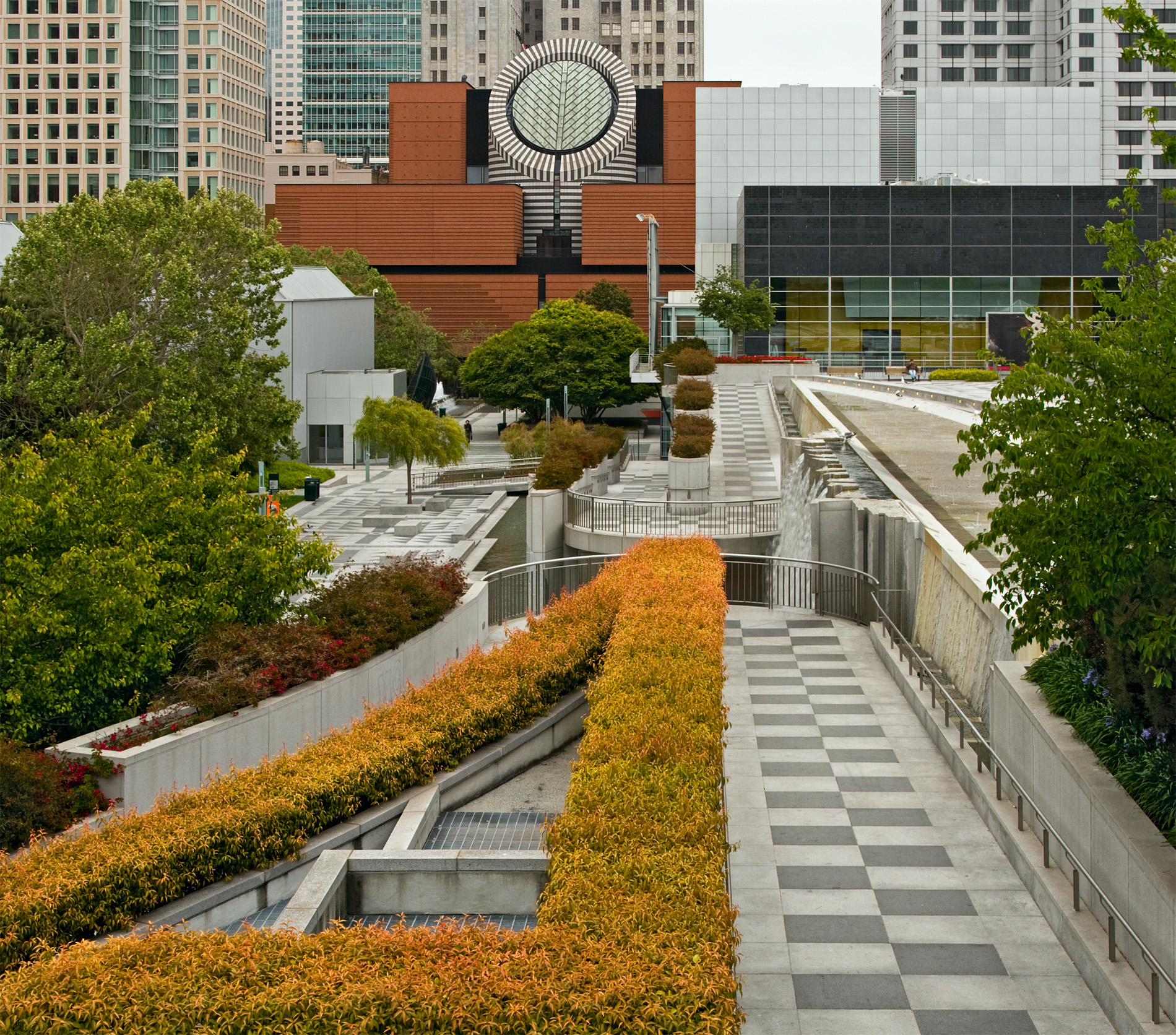 San Francisco MoMA seen through Yerba Buena Gardens.